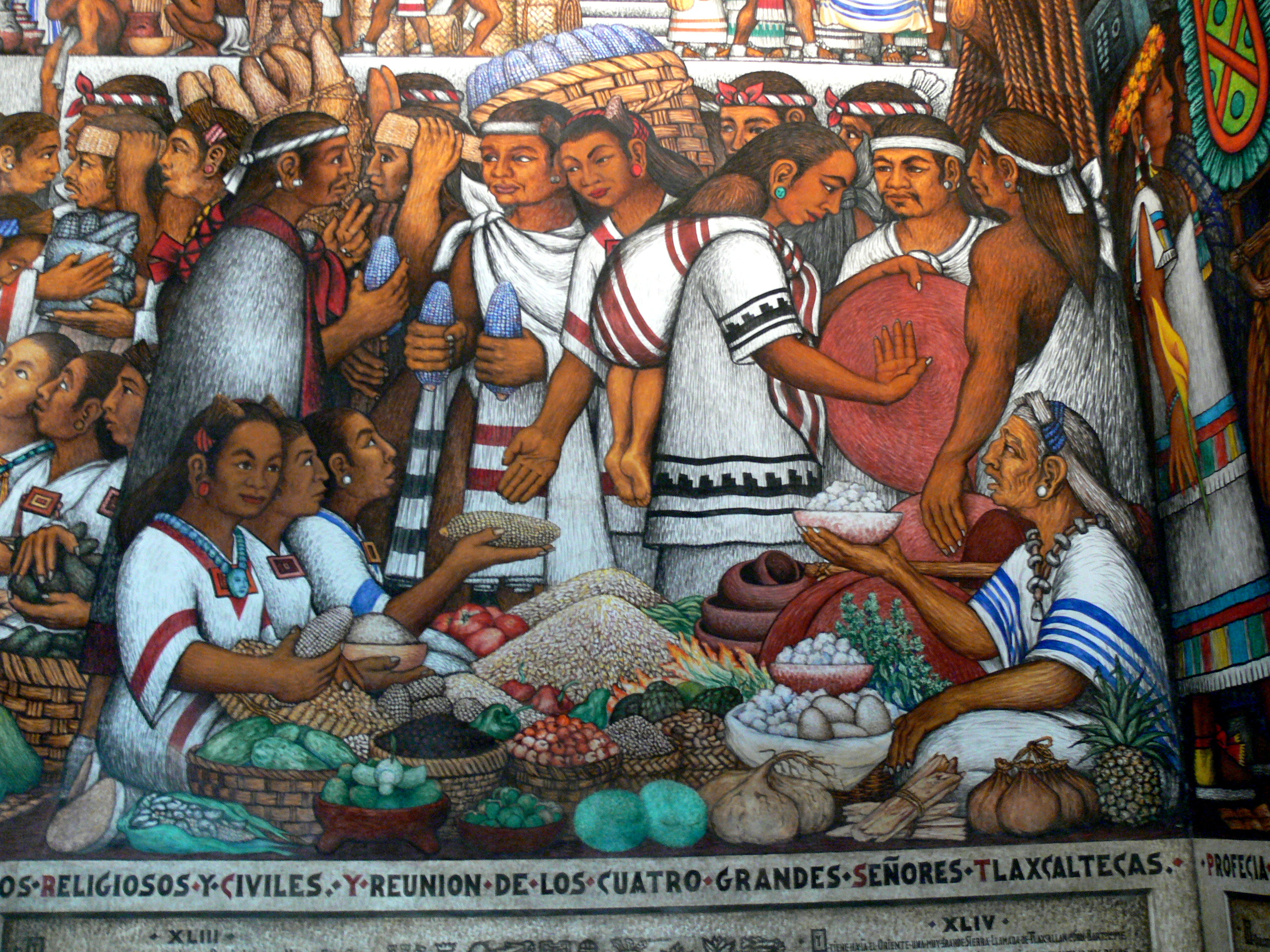 Tlaxcala city. Palacio de Gobierno: Murals - Indian vendors at the market of Tlaxcala.